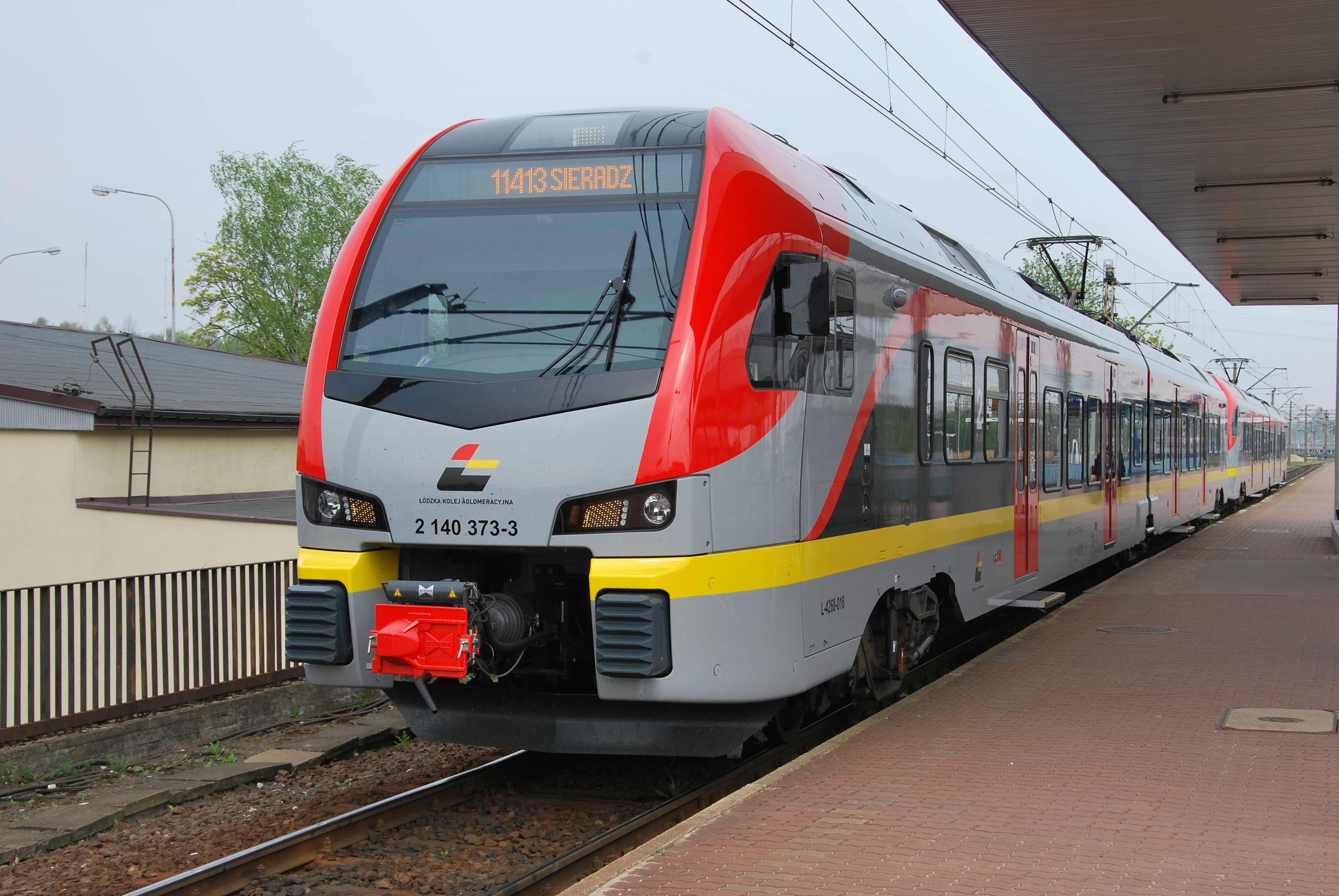 Łódź Kaliska ŁKA train